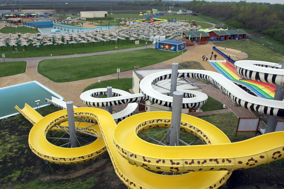 Aqua park Petroland in Bački Petrovac, Serbia.